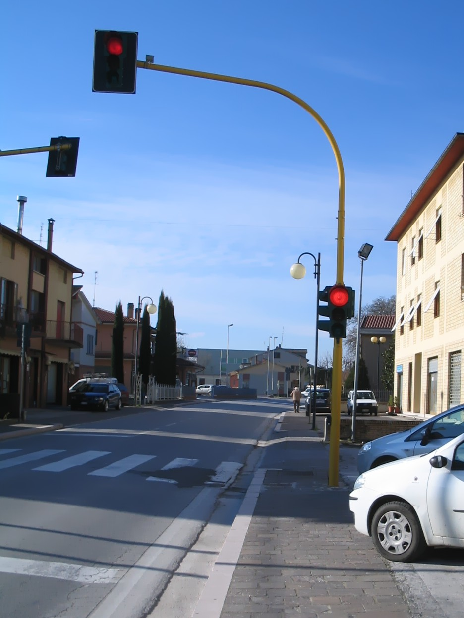 light bollard